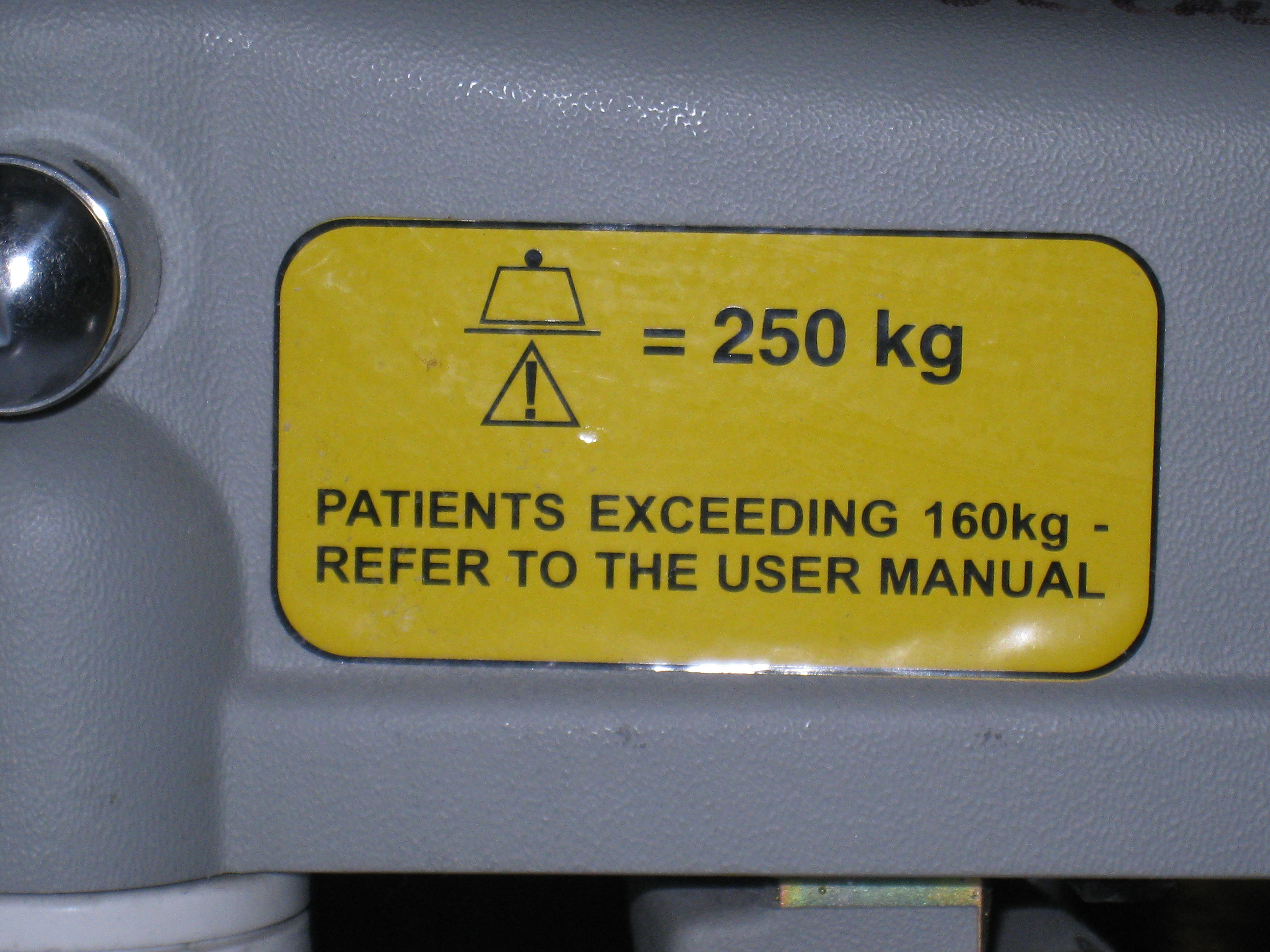 Warning notice on a hospital trolley regarding handling over-weight patients. Taken at St Thomas Hospital, London